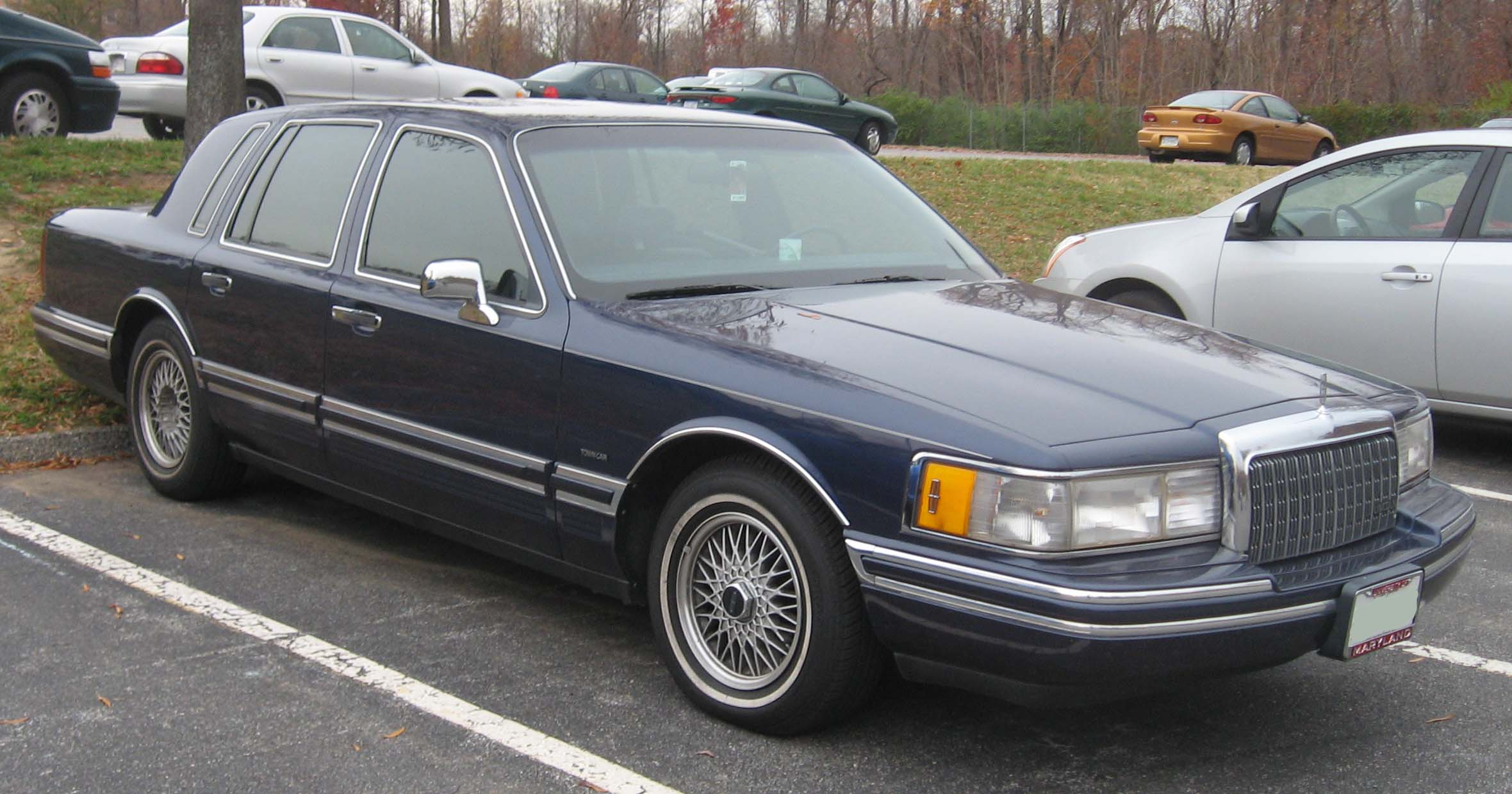 1990-1994 Lincoln Town Car photographed in College Park, Maryland, USA.